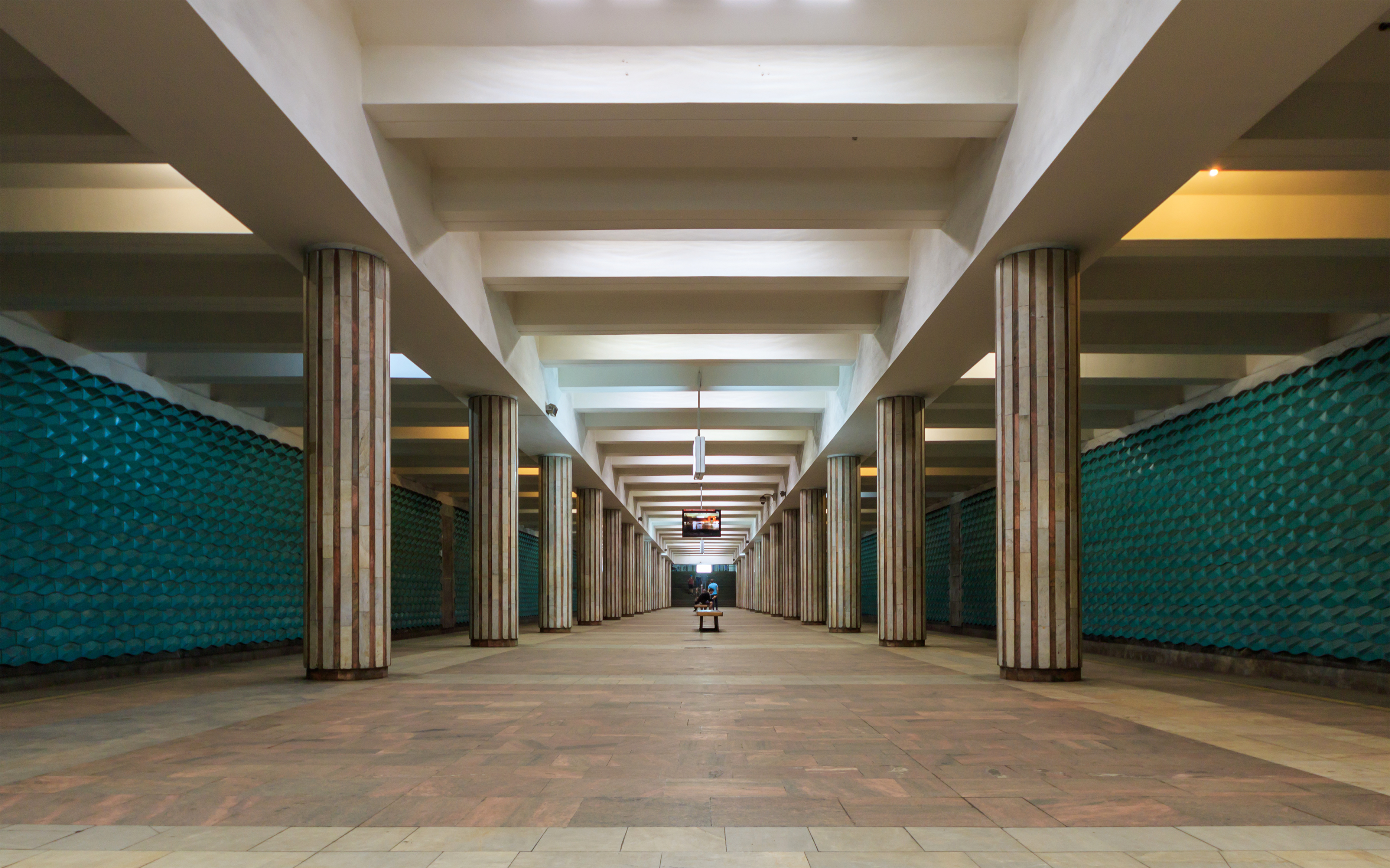 Zarechnaya metro station in Nizhny Novgorod, Russia.